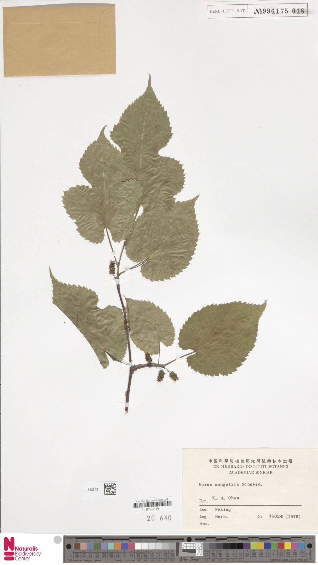 This is a photograph of leaf morphology in a [Morus mongolica] dried specimen. It was published by Naturalis Biodiversity Center, online.